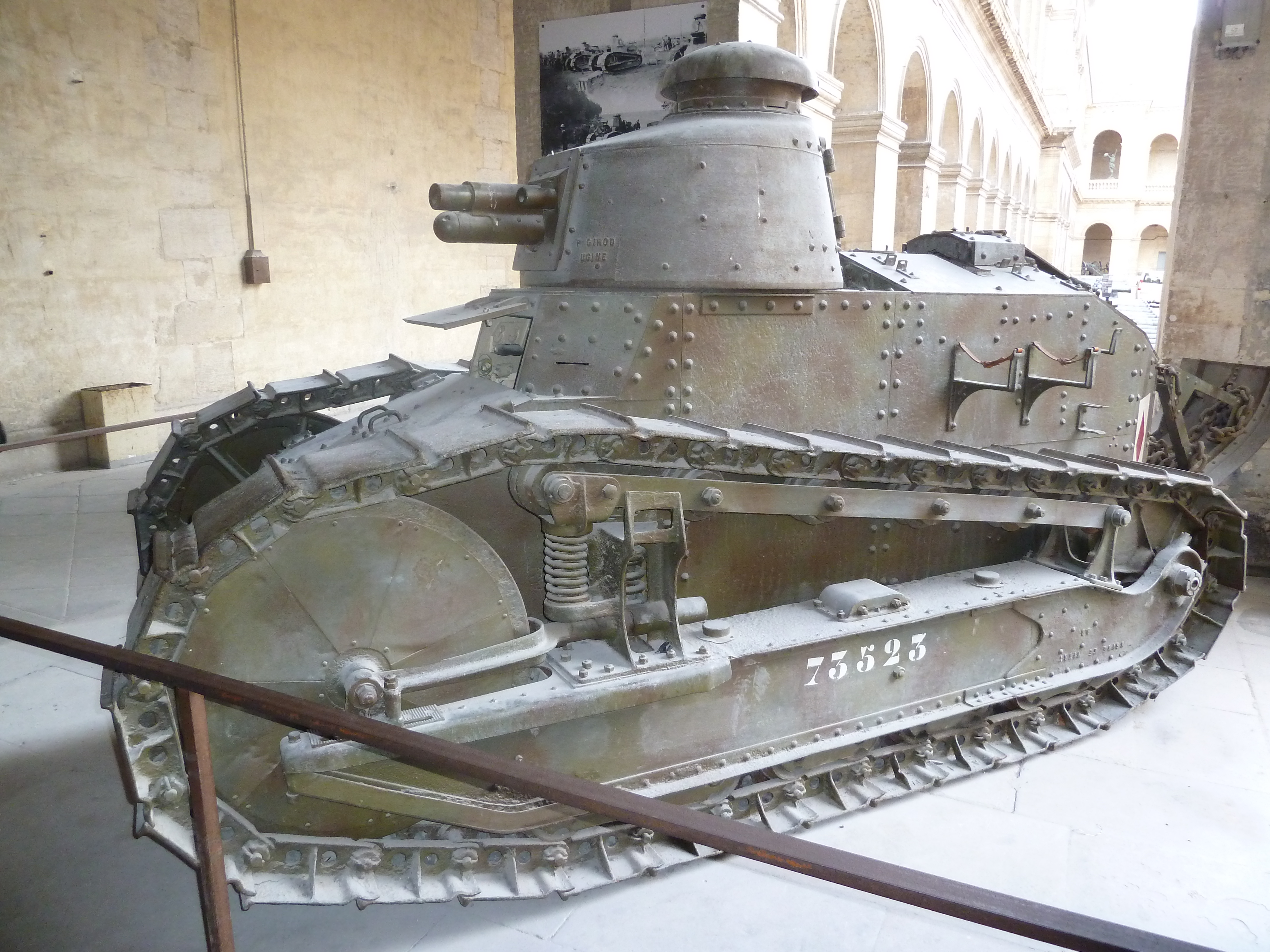 Renault FT-17 tank at Les Invalides, France.